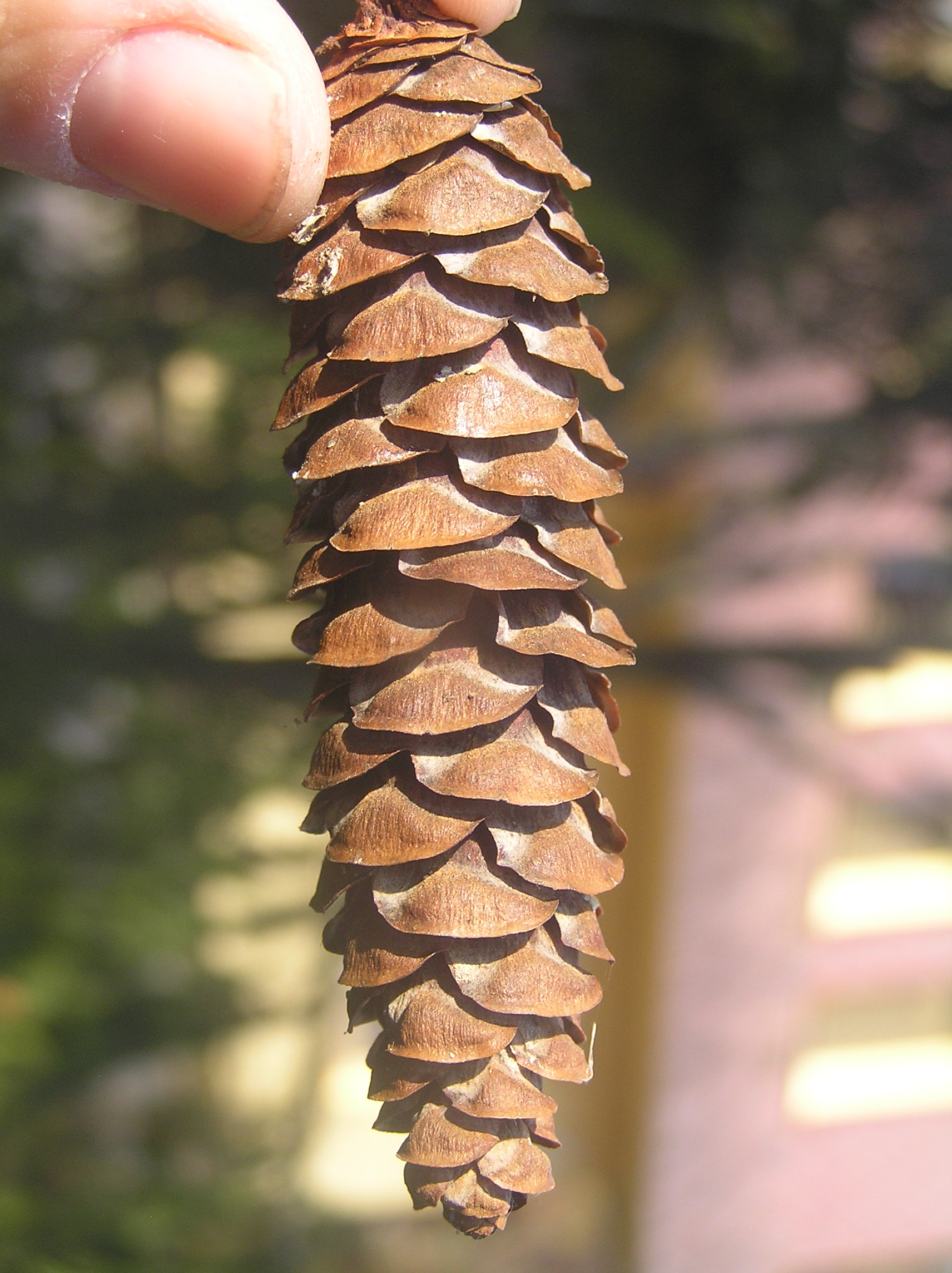 Picea orientalis, cultivated in the Czech Republic, arboretum Žampach